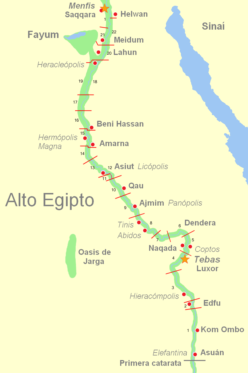 Upper Egypt Nomes